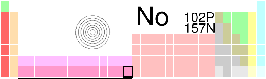 Created by User:Ahoerstemeier similar to the other element boxes